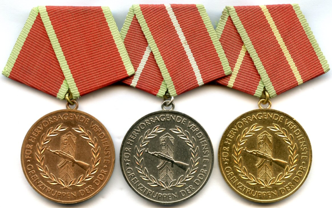 Medal of Merit of the Border Troops of the GDR All 3 levels